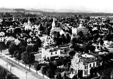 aerial view of Salem Oregon circa 1900, author unknown source Marion County Historical Society